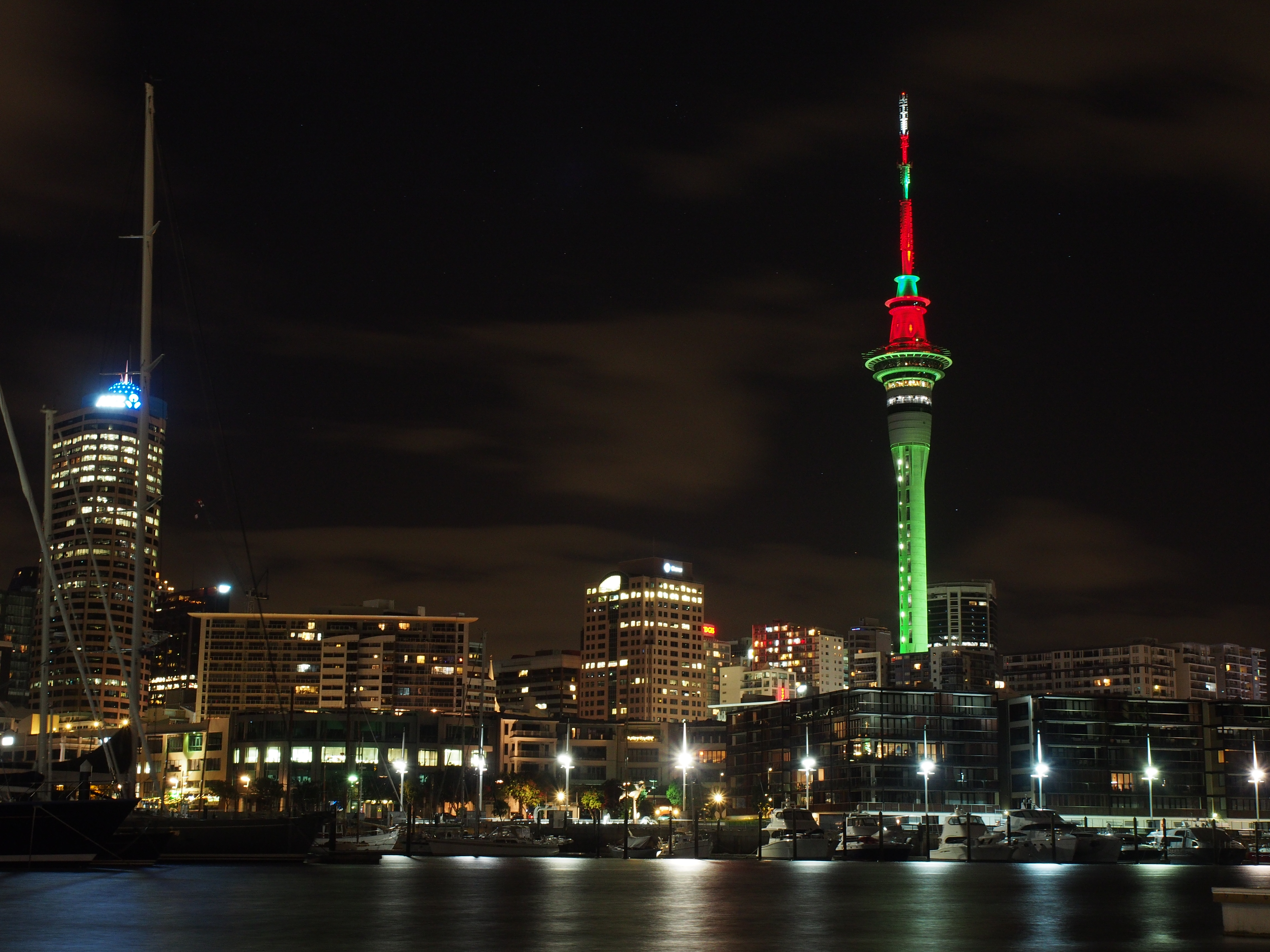 Skyline of largest NZ city by night, Sky Tower lit in red and green. Harbour in foreground.